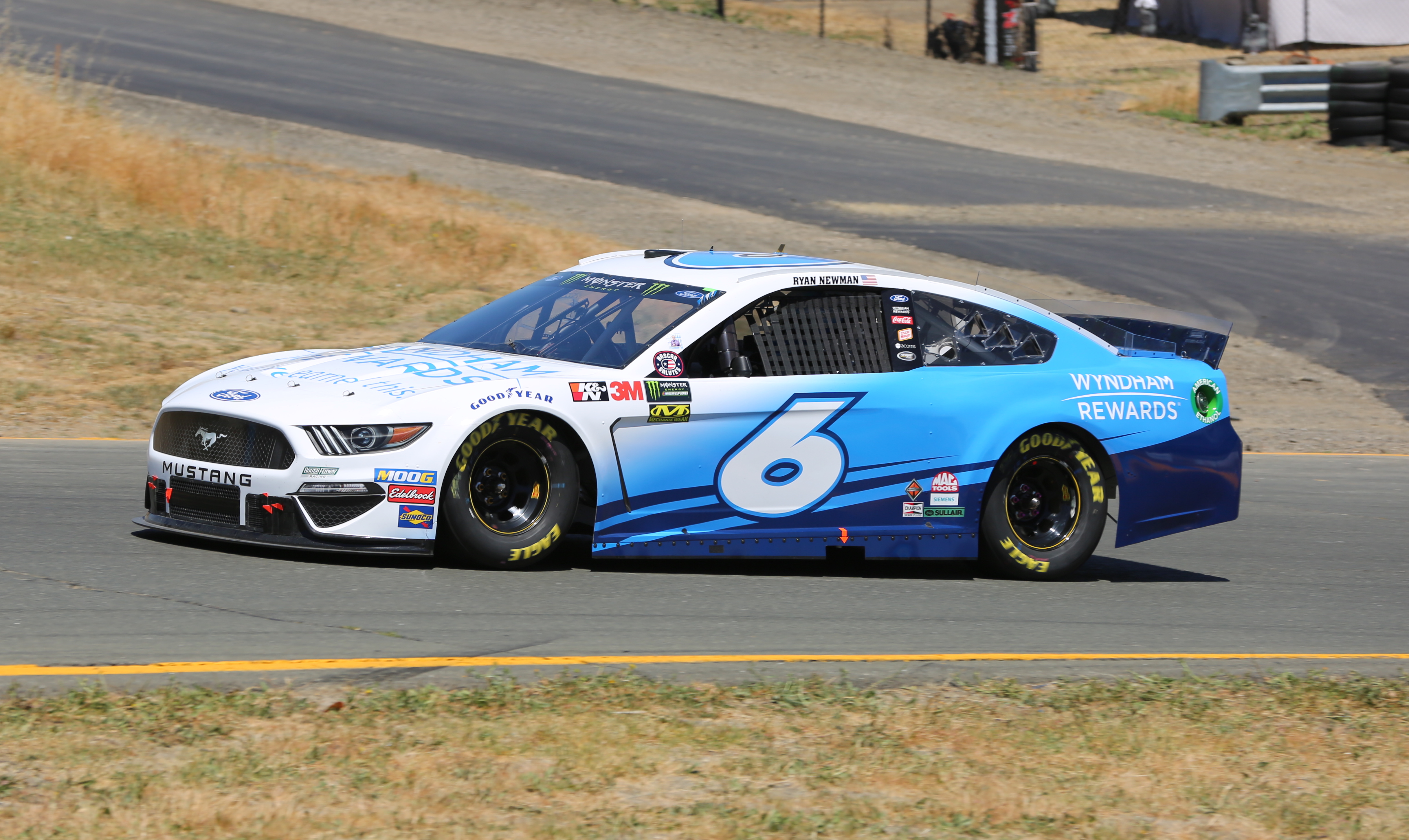 Ryan Newman's No. 6 Wyndham Rewards Ford at Sonoma Raceway in 2019